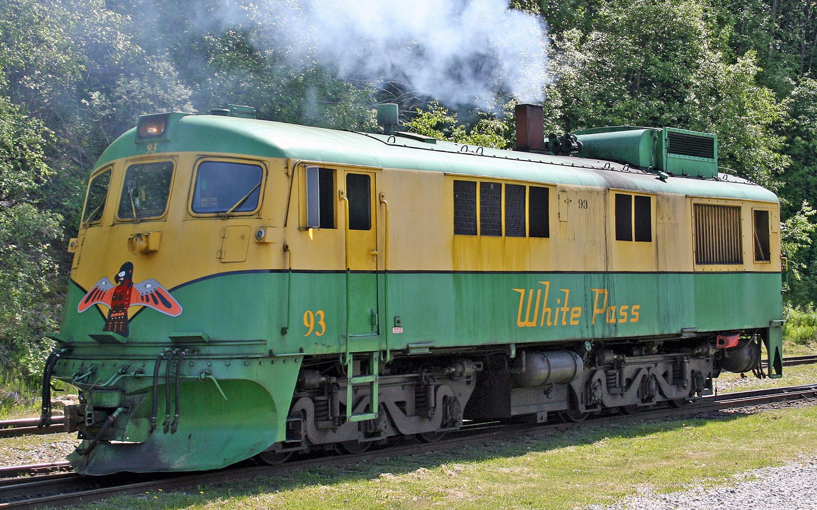 White Pass and Yukon Route No 93; taken June 9, 2006.